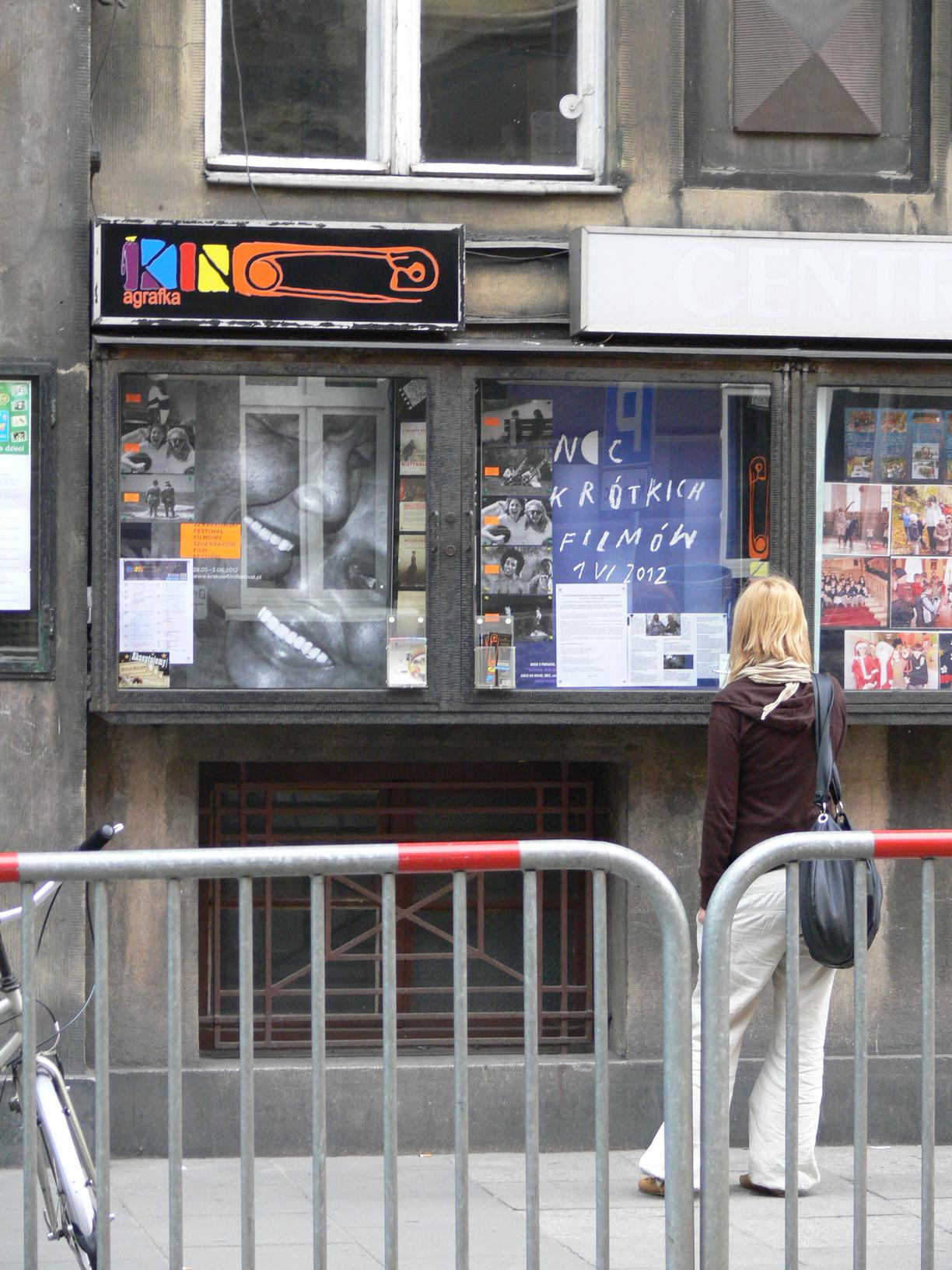 Movie theater Agrafka in Kraków, Poland